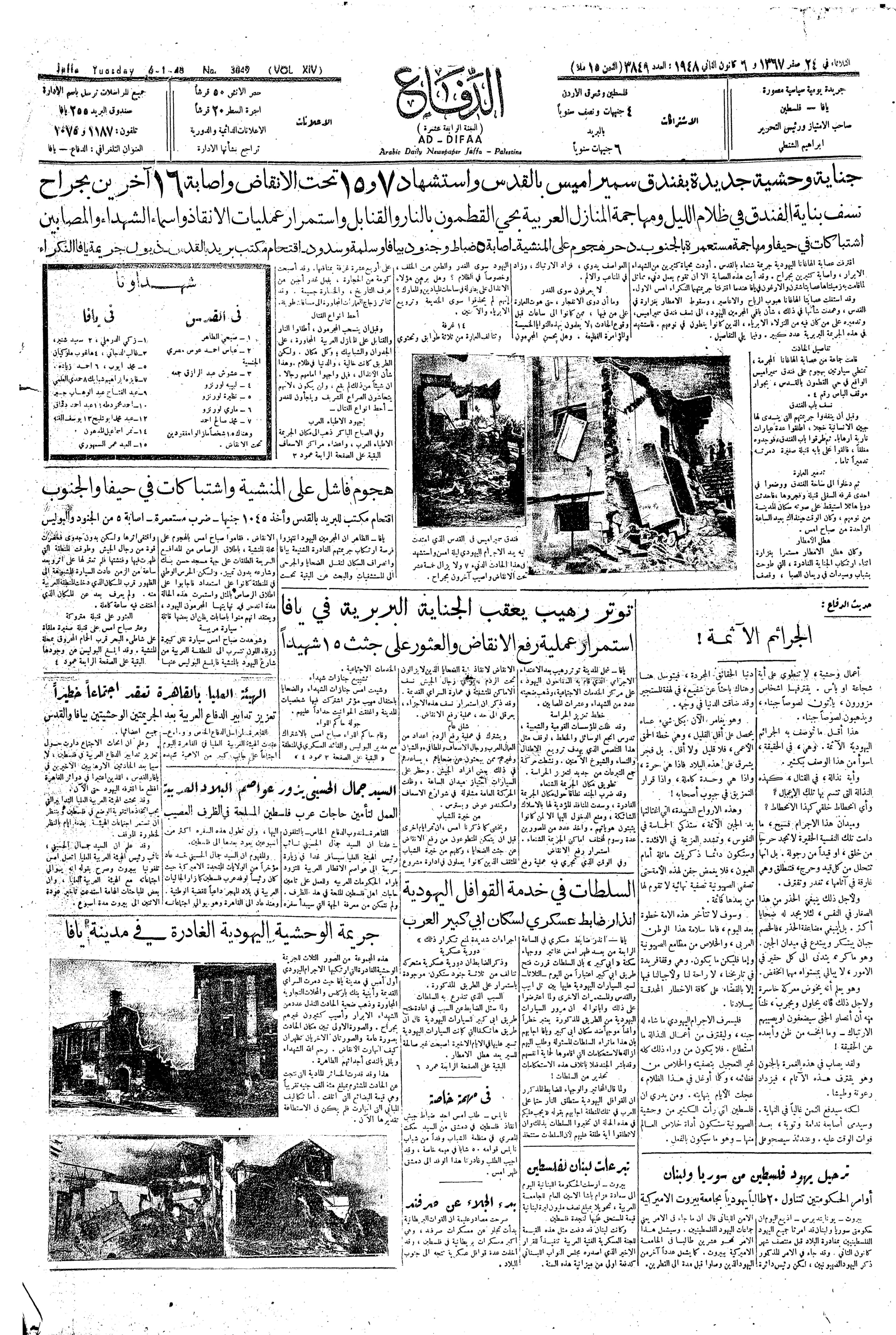 Palestinian newspaper